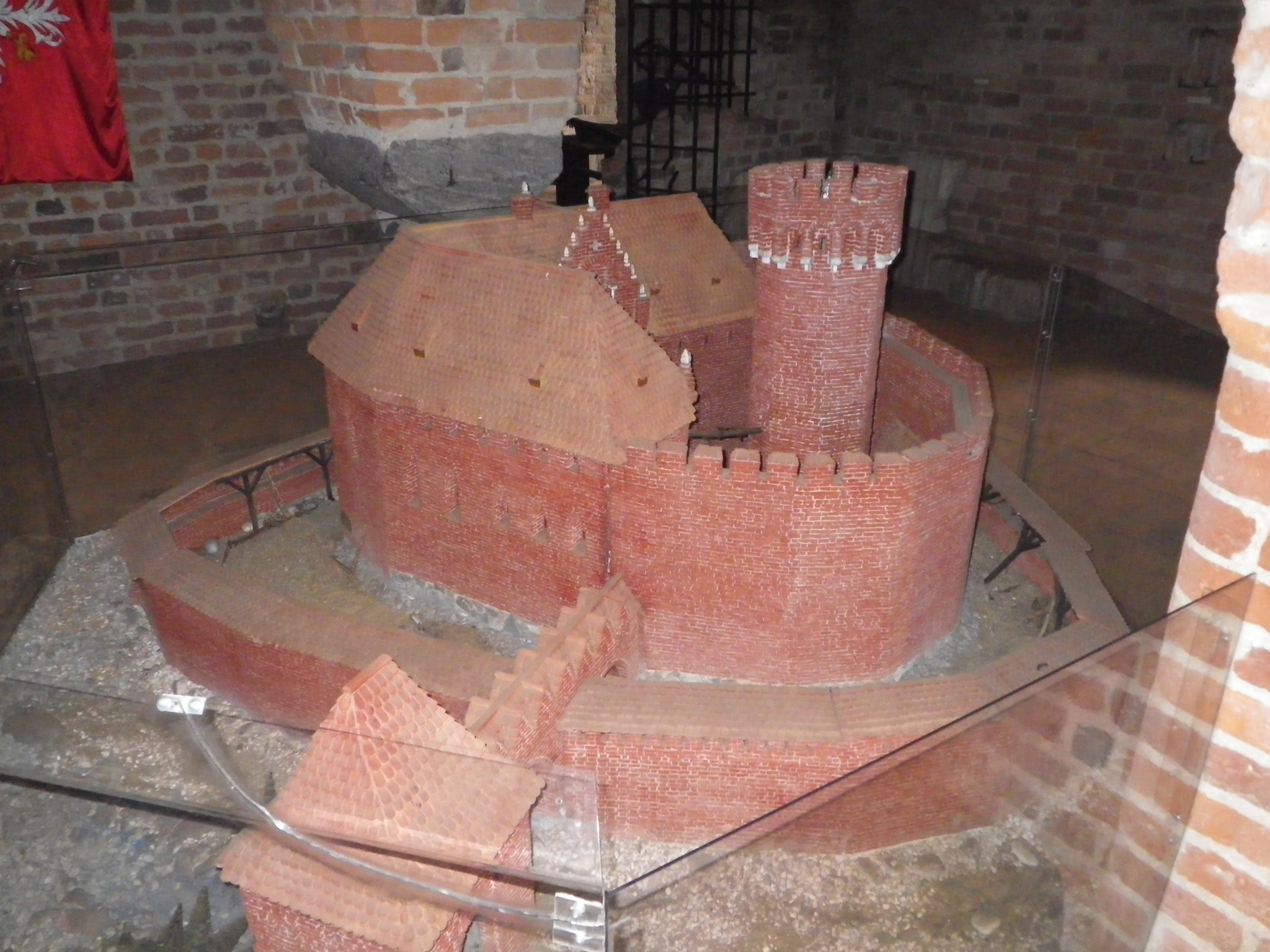 A reconstruction of the castle of the Teutonic Knights in Toruń, in castle dungeons.